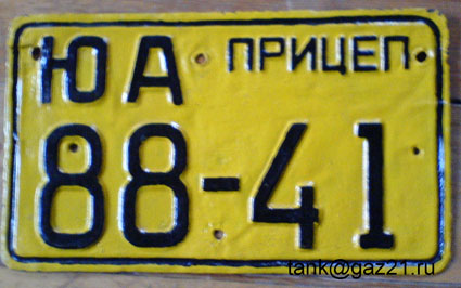 USSR trailer license plate in 1946